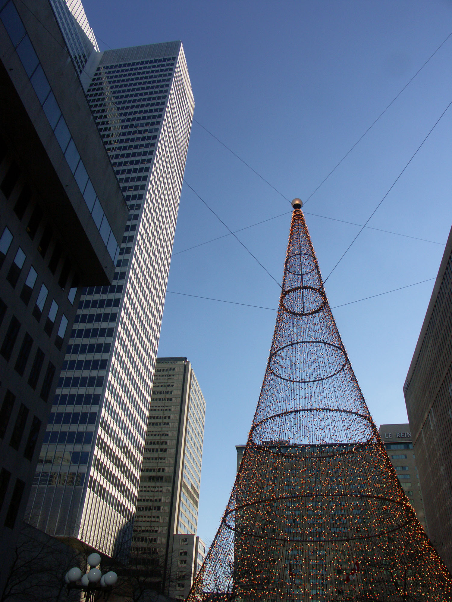 Christmas tree, outdoor, on top of Ville-Marie shopping center, Montreal - Quebec